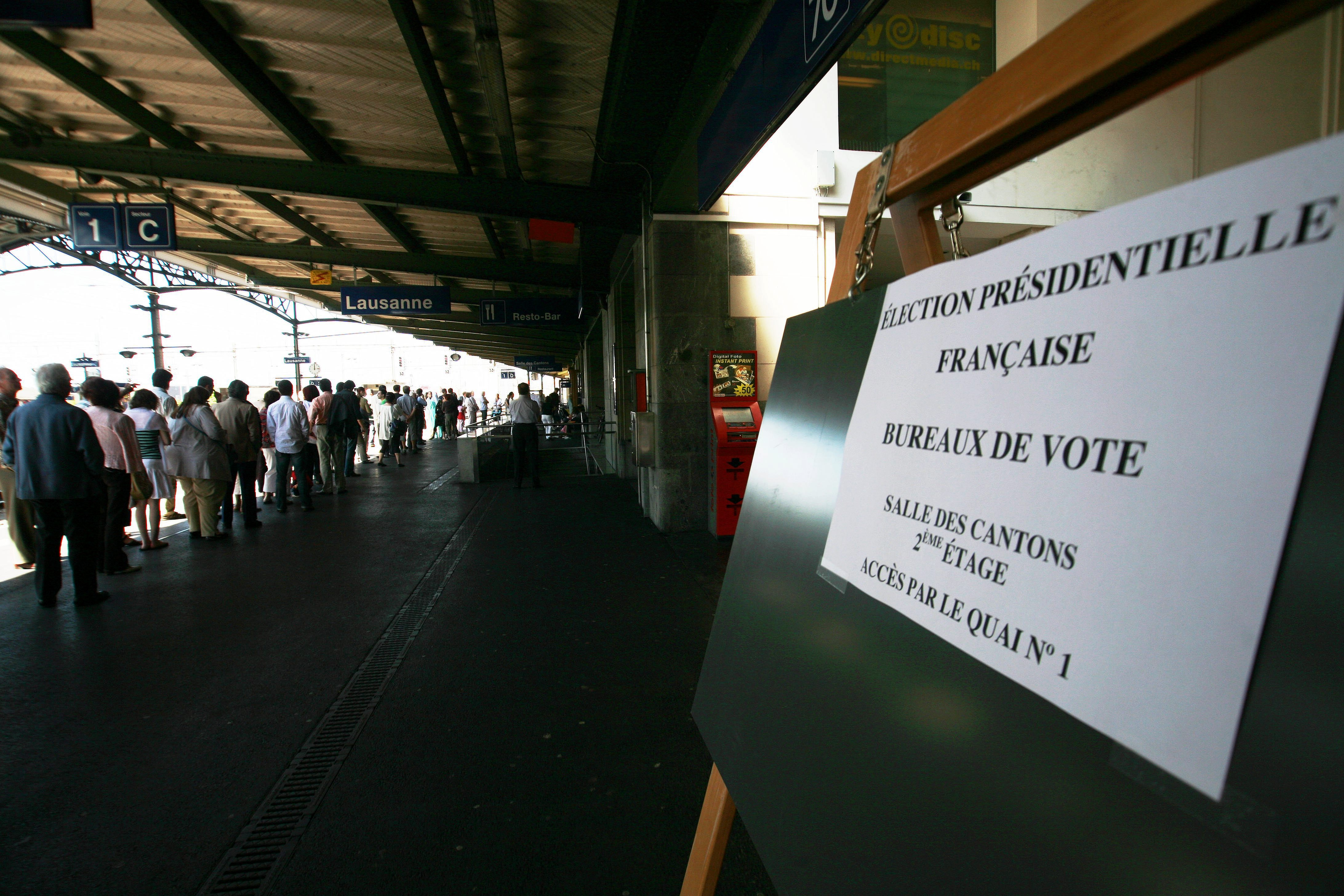 Expatriate voters queuing in Lausanne for the French presidential election of 2007 The sign reads: "French presidential election, voting station, hall of the Cantons 2nd floor, access through platform 1" ("Élection présidentielle française, bureaux de vote, salle des Cantons 2ème étage, accès par le quai no 1")